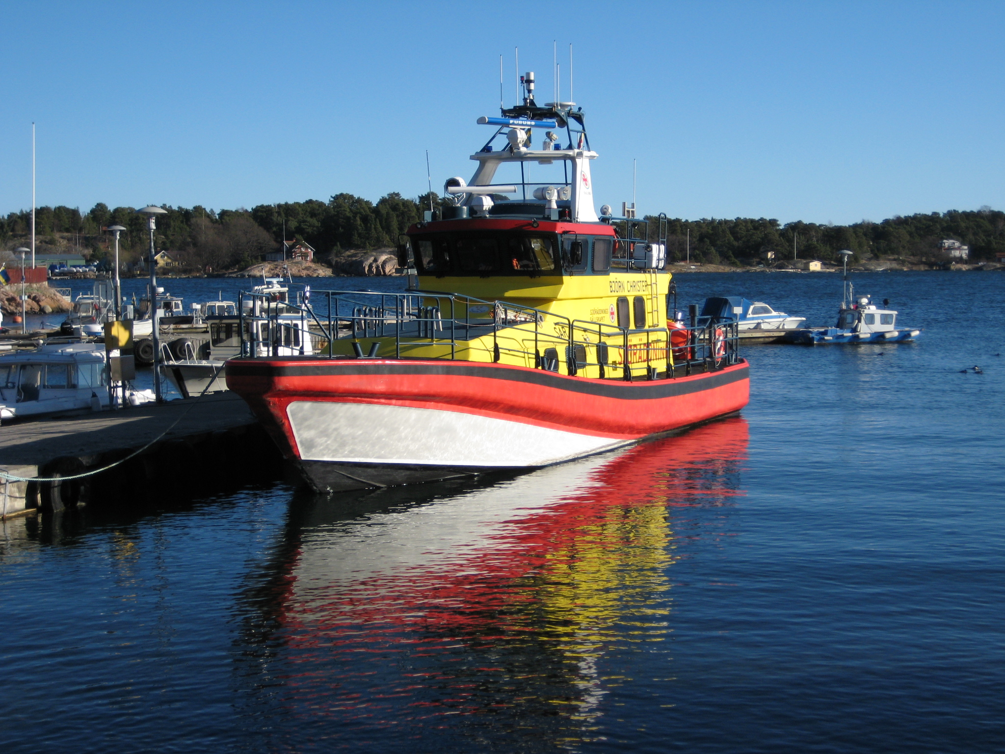 Rescue boat Björn Christer in Dalarö (Haninge municipality, Stockholm archipelago, Sweden)